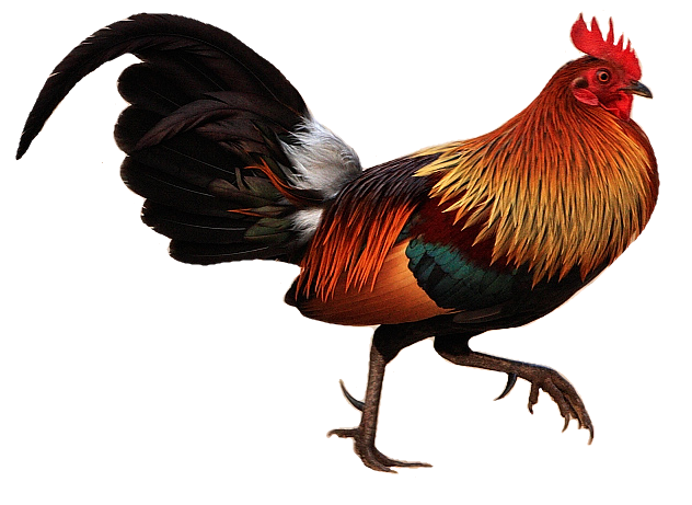 Red Jungle fowl